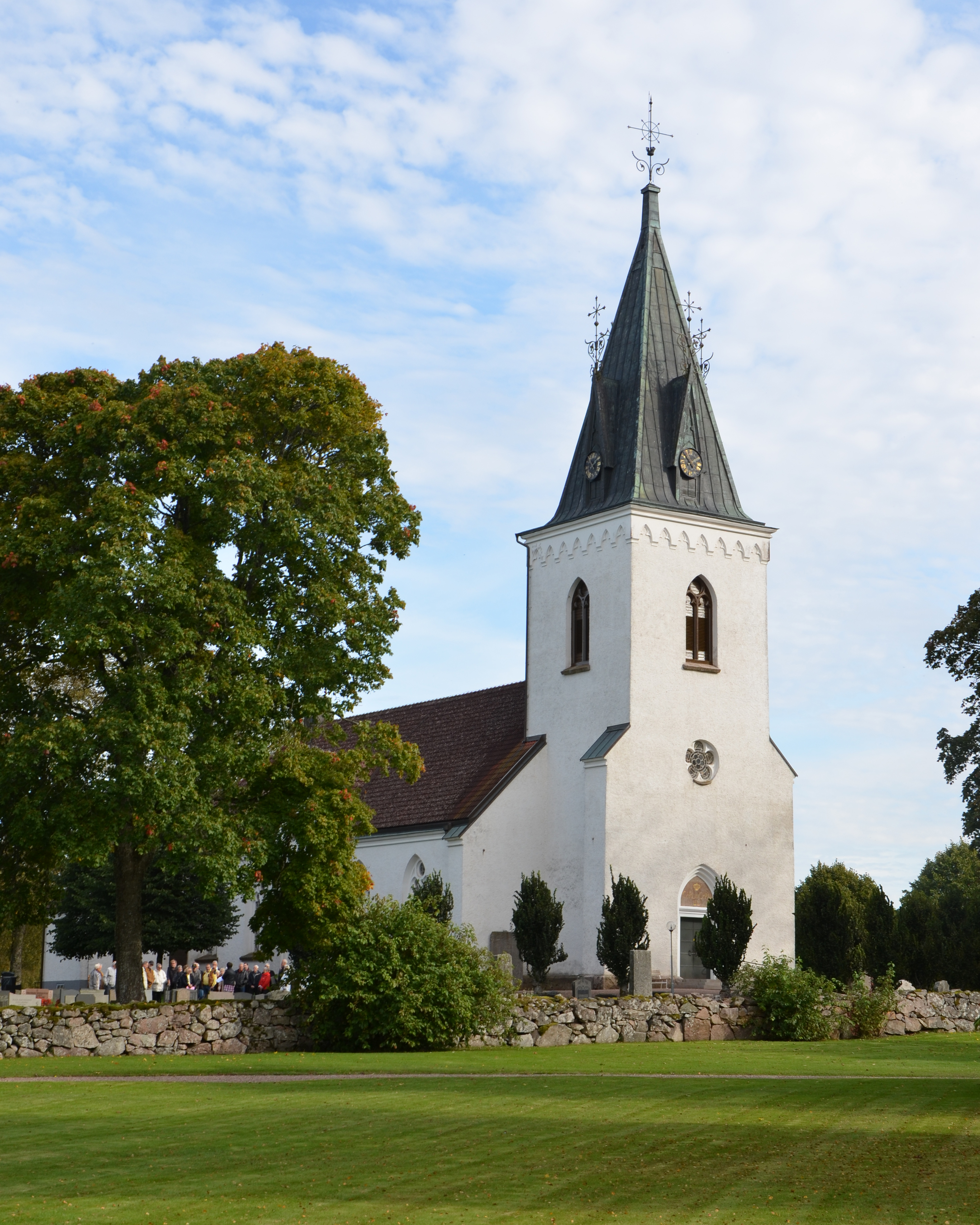 Åsarp-Smula kyrka (Swedish:Church of Åsarp-Smula) in Västergötland, Sweden.